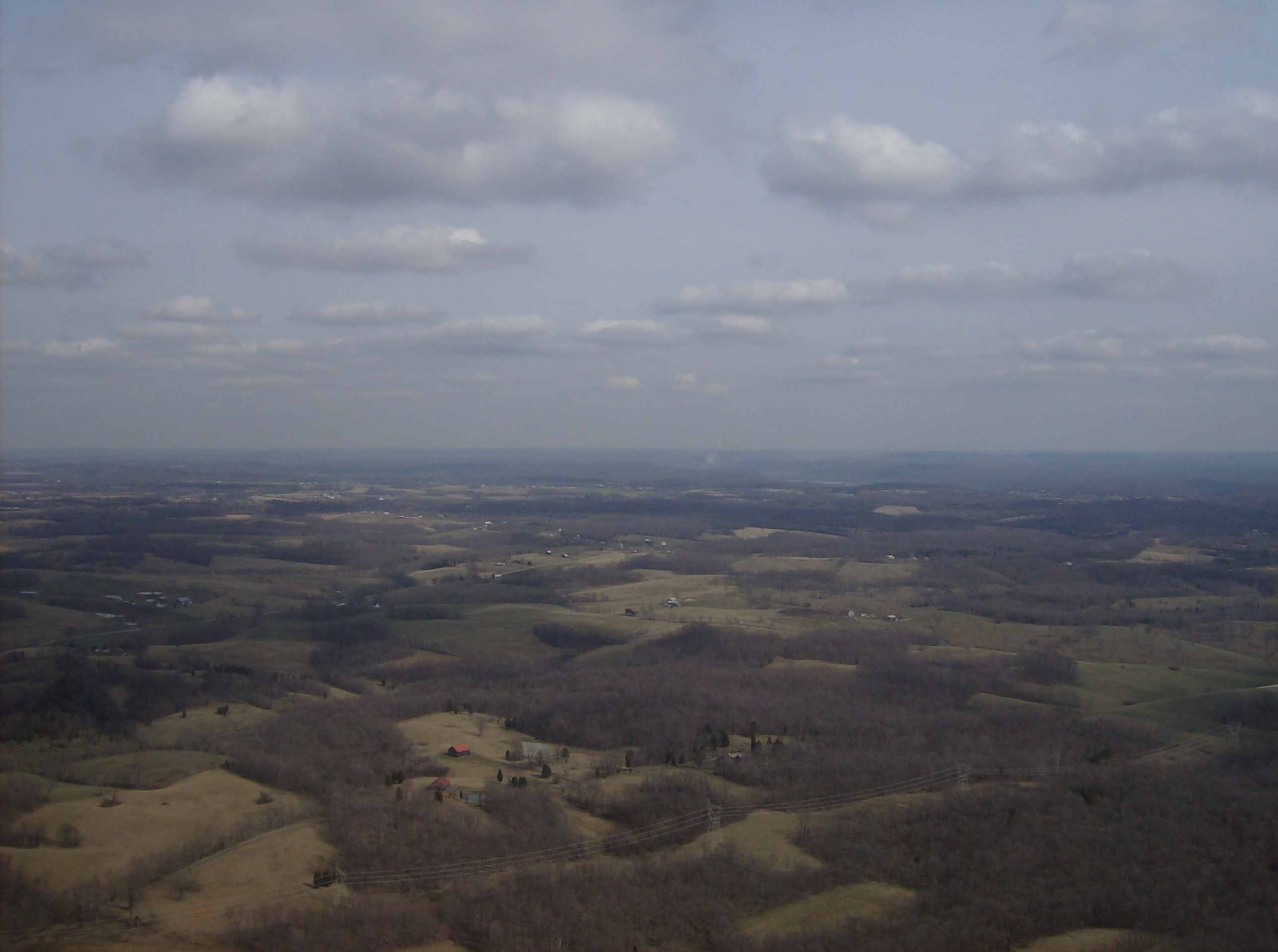 Countryside in Sprigg Township, Adams County, Ohio, United States. Picture taken from a Diamond Eclipse light airplane at an altitude of 1,850 feet MSL and a bearing of approximately 125º.